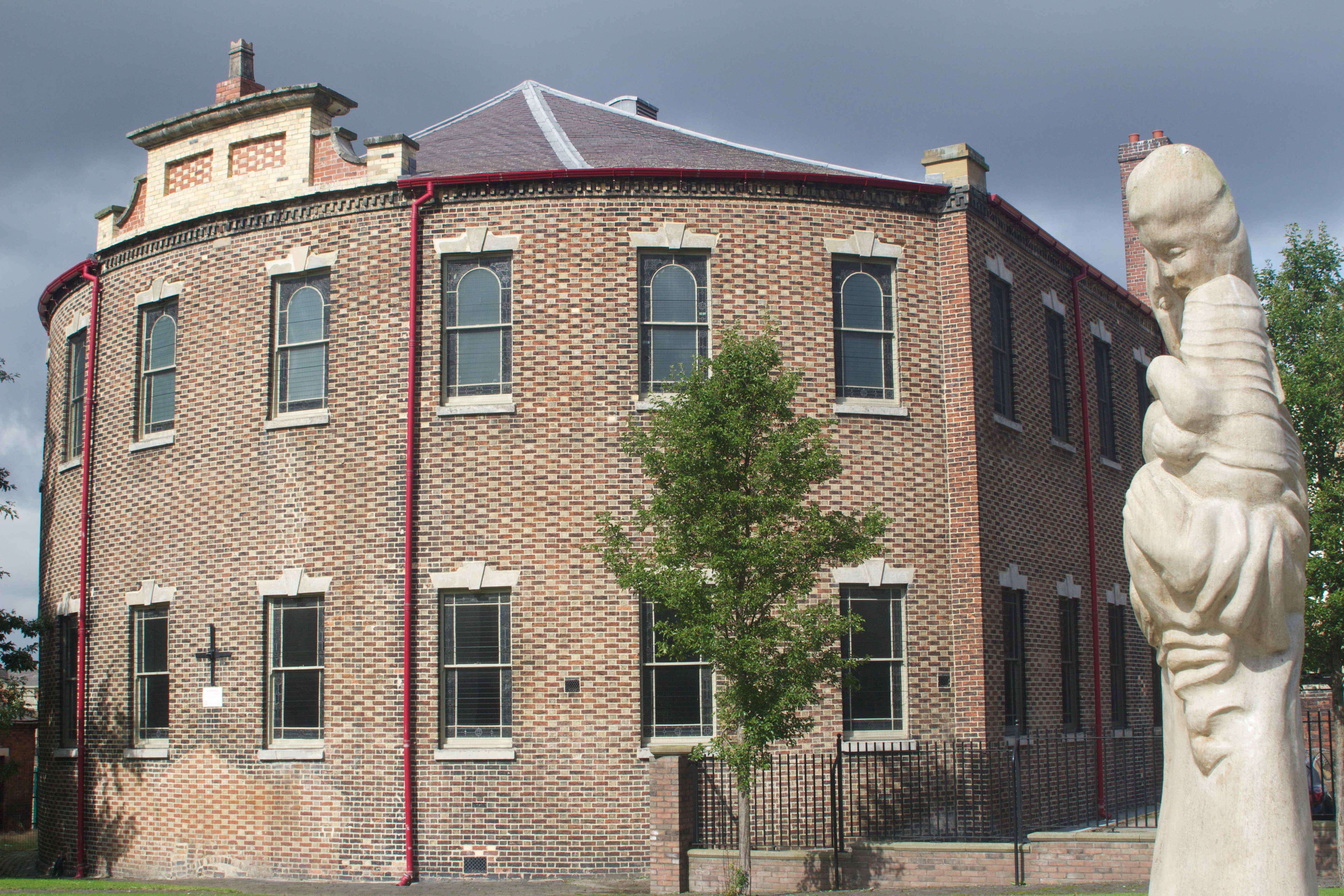 Bethesda Methodist Chapel